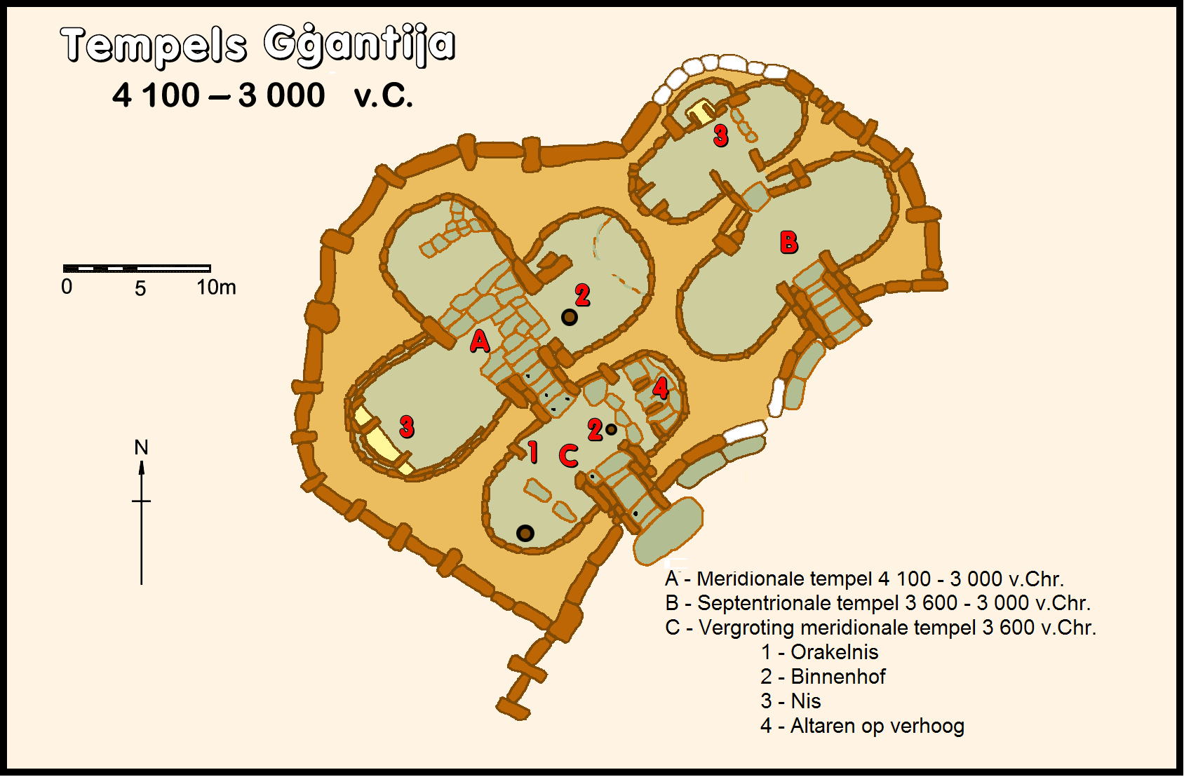 Translated from Plan des temples de Ggantija.png